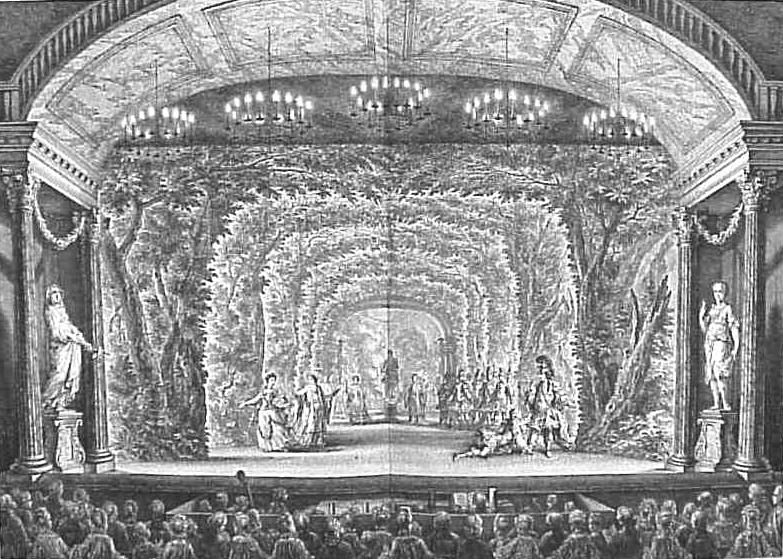 The 4th scene of the 3rd act of Metastasio's tragedy «Demophontes», set on music by Antonio Caldara as staged at Amsterdamsche Schouwburg at June 1st, 1768.